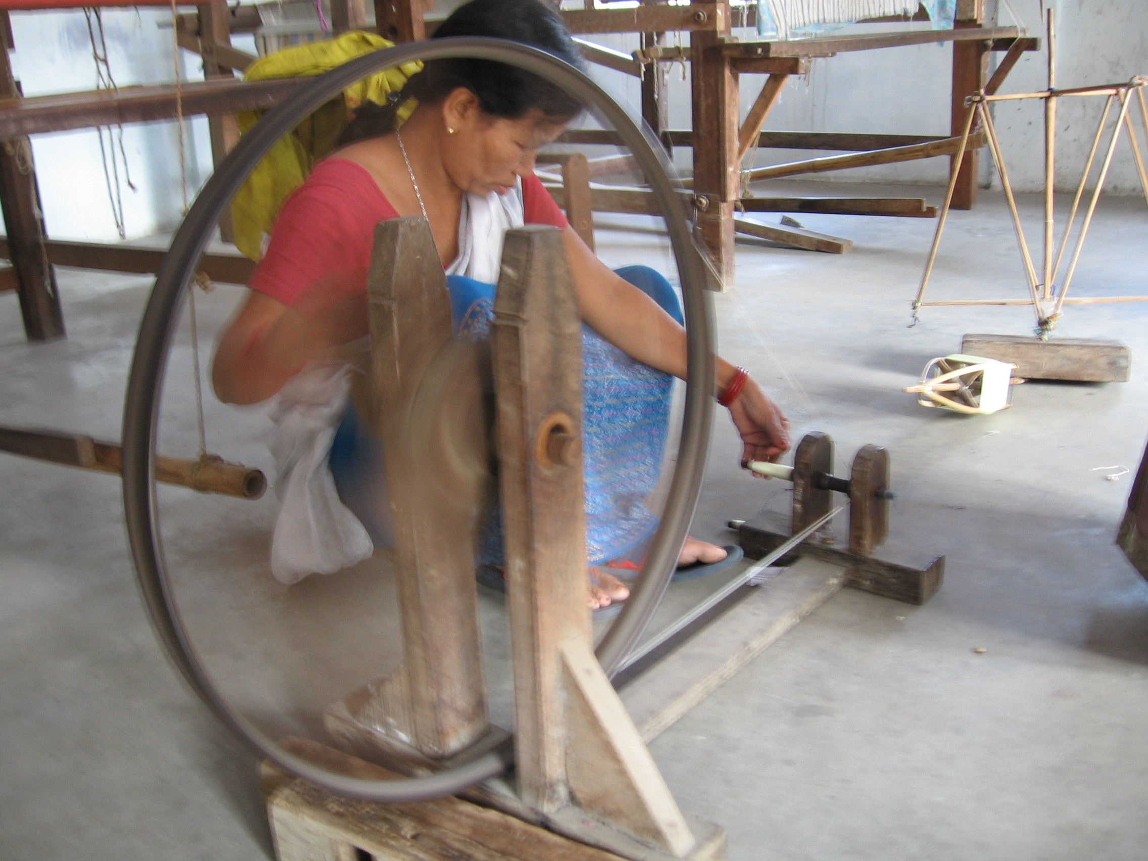 An Assamese woman spinning thread manually for use in Mekhela Chadors in the Mahila Samiti workshop in Tezpur.